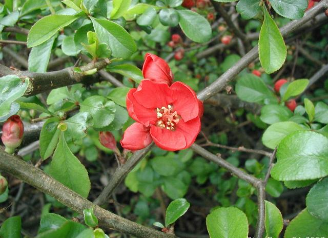 Chaenomeles japonica: Flower